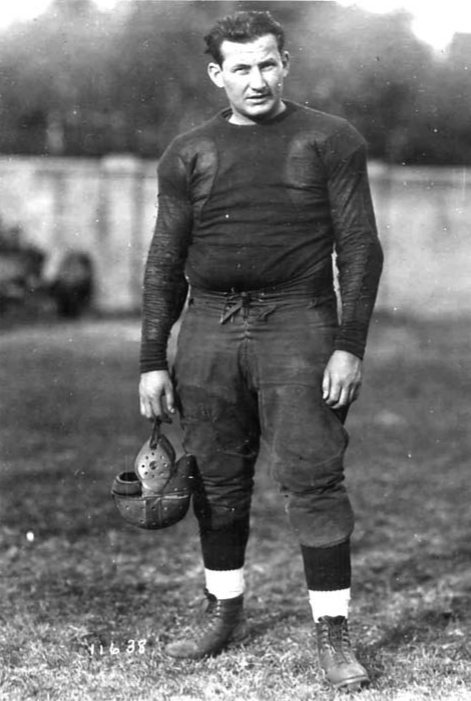 Picture of George Abramson, football player for Minnesota and Green Bay in the early 1920s